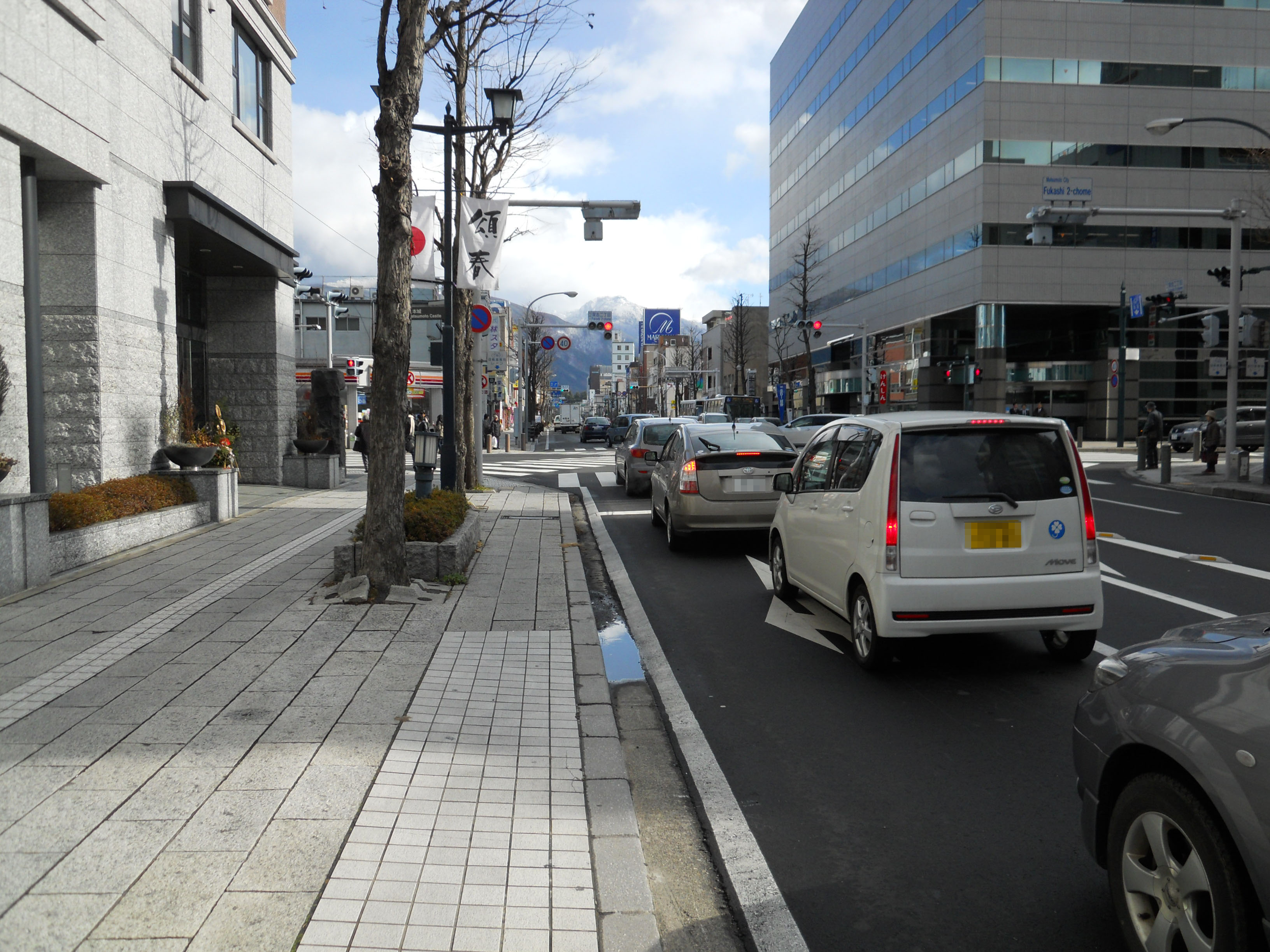 The Fukashi 2-chome Intersection in Matsumoto City, Nagano Prefecture, Japan